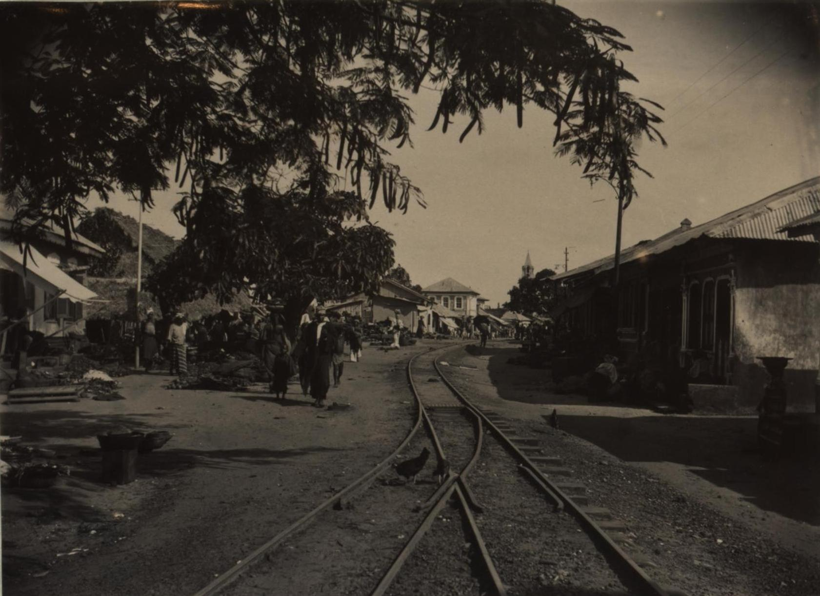 Creator: H. Hunting Title: Ebute Ero Street Lagos. Shewing "Tram" Lines. Date: [between 1910 and 1913] Extent: 1 photograph: black and white (10 x 15cm) Notes: Title transcribed from caption Picture shows a tram line on Ebute Ero Street, Lagos, Nigeria. From a two volume set of photographic albums containing 130 photographs. Photographs depict representatives of the Paterson Zochonis trading company and the various tribes they encountered in the course of trading in West Africa. Subjects: Photograph albums Nigeria, Photograph Albums Sierra Leone, Commerce--Nigeria--1910-1920 Format: Photograph Rights Info: No known restrictions on access Repository: Thomas Fisher Rare Book Library, University of Toronto, Toronto, Ontario Canada, M5S 1A5